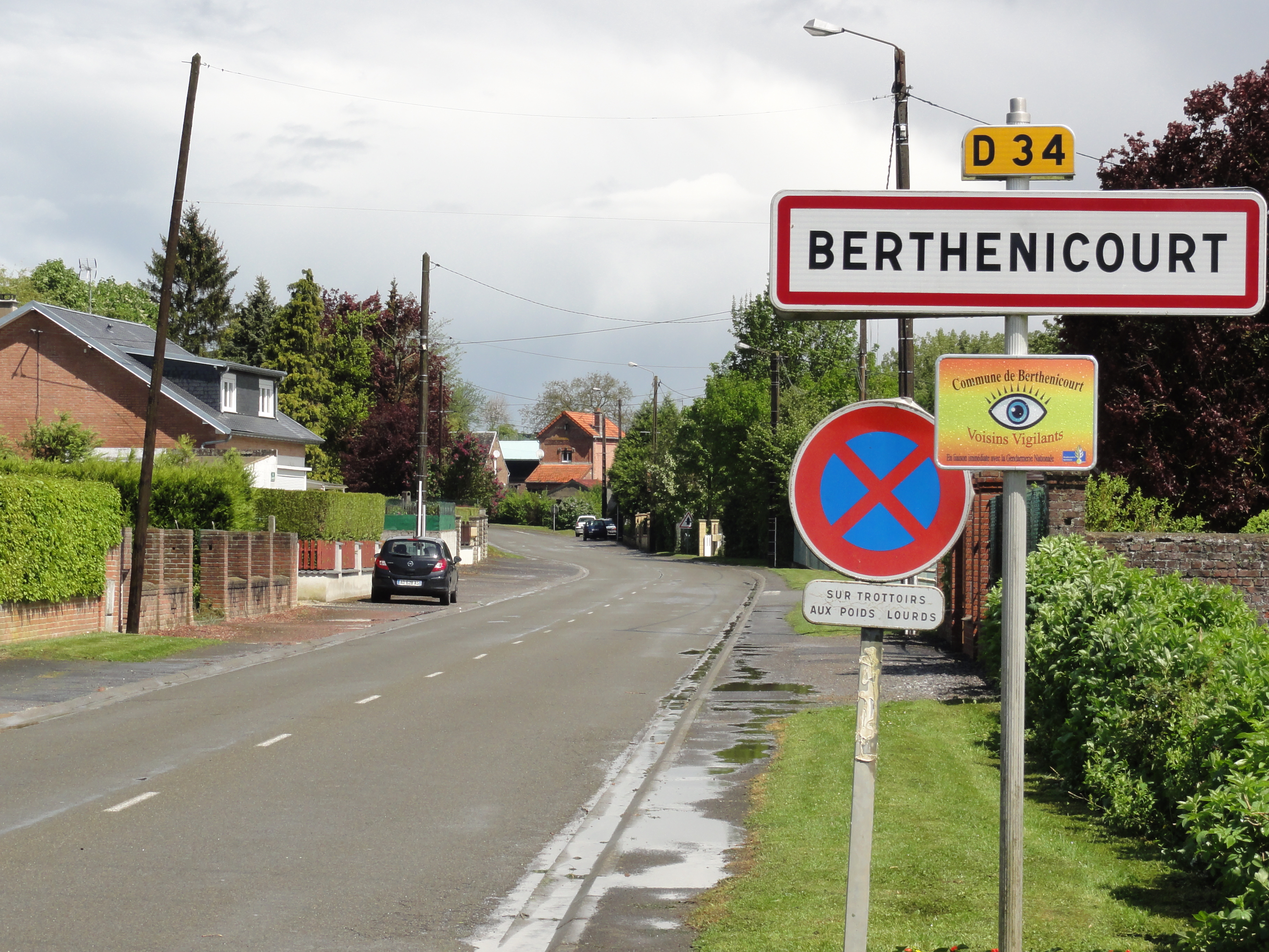 Berthenicourt (Aisne) city limit sign